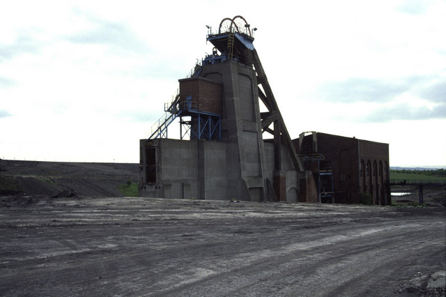 Hickleton Colliery No. 3 shaft, 1921. Ceased to be workable c1989 and demolished 1994. The building housed a very large Markham & Co, Chesterfield steam winding engine.